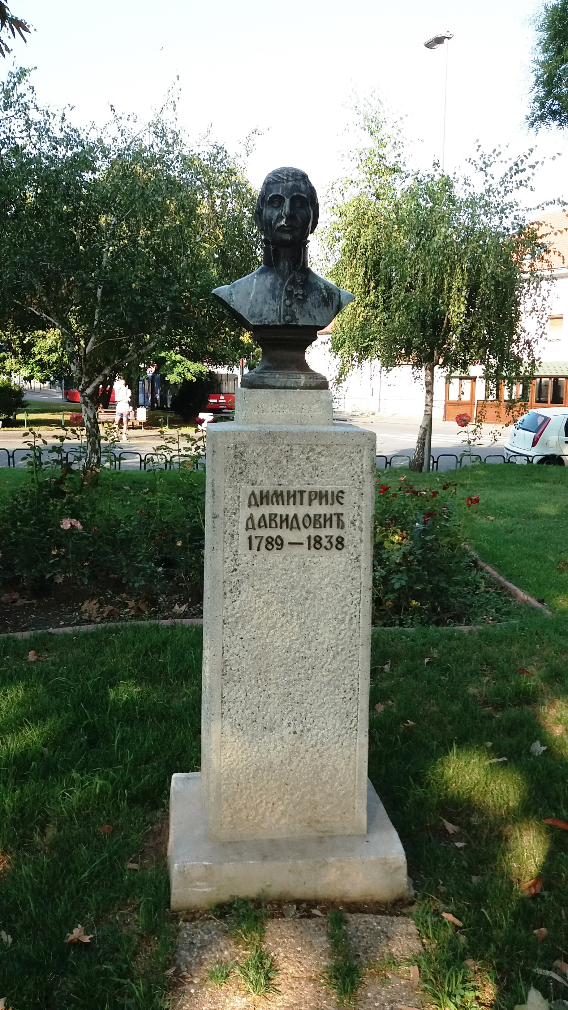 Memorial bust to Dimitrije Davidović, Zemun Quay, Zemun